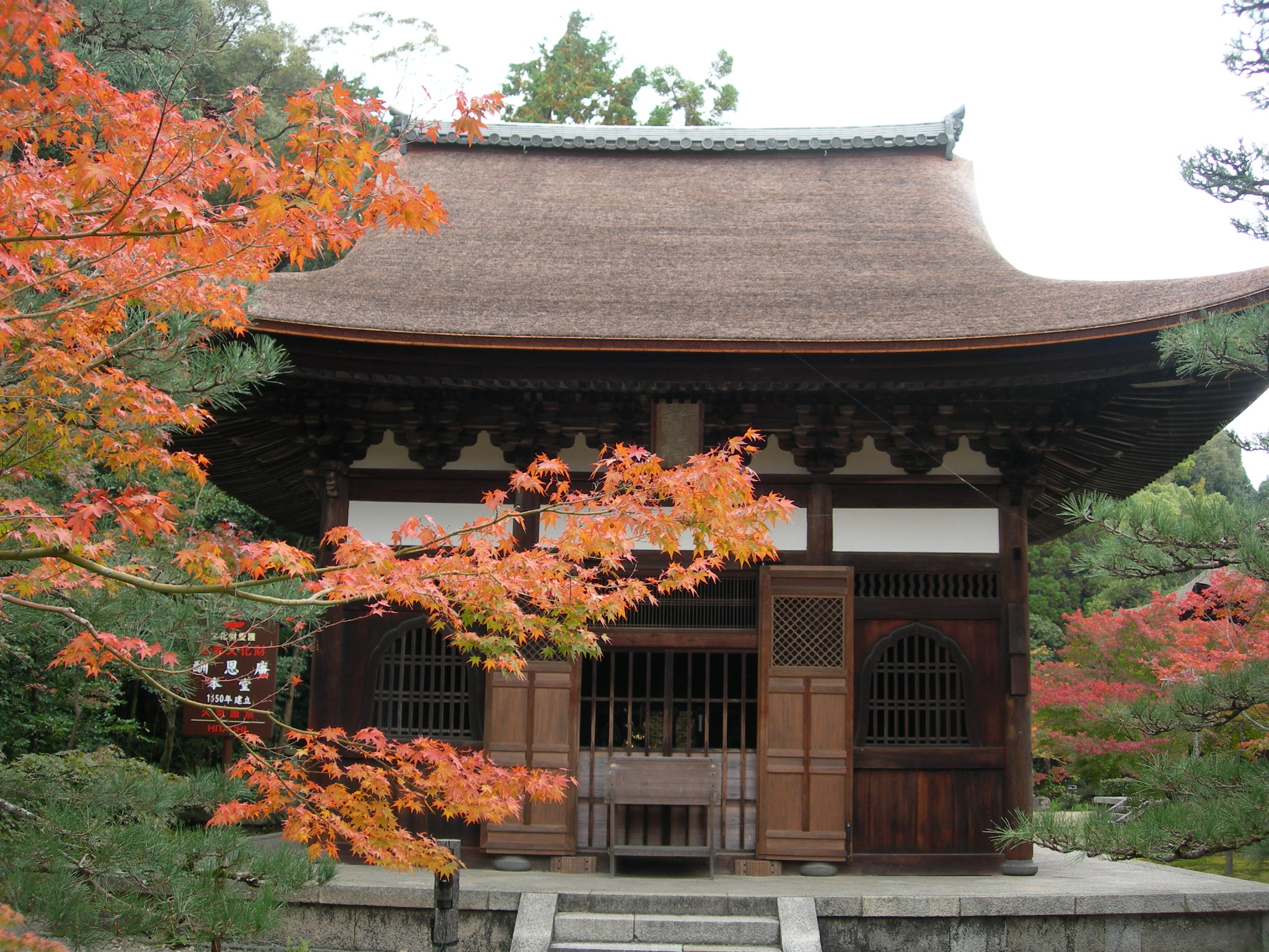 Hondo (Mahavira Hall) (Important Cultural Properties of Japan) of Ikkyu-Ji Temple, Kyōtanabe, Kyoto. taken in 2010.